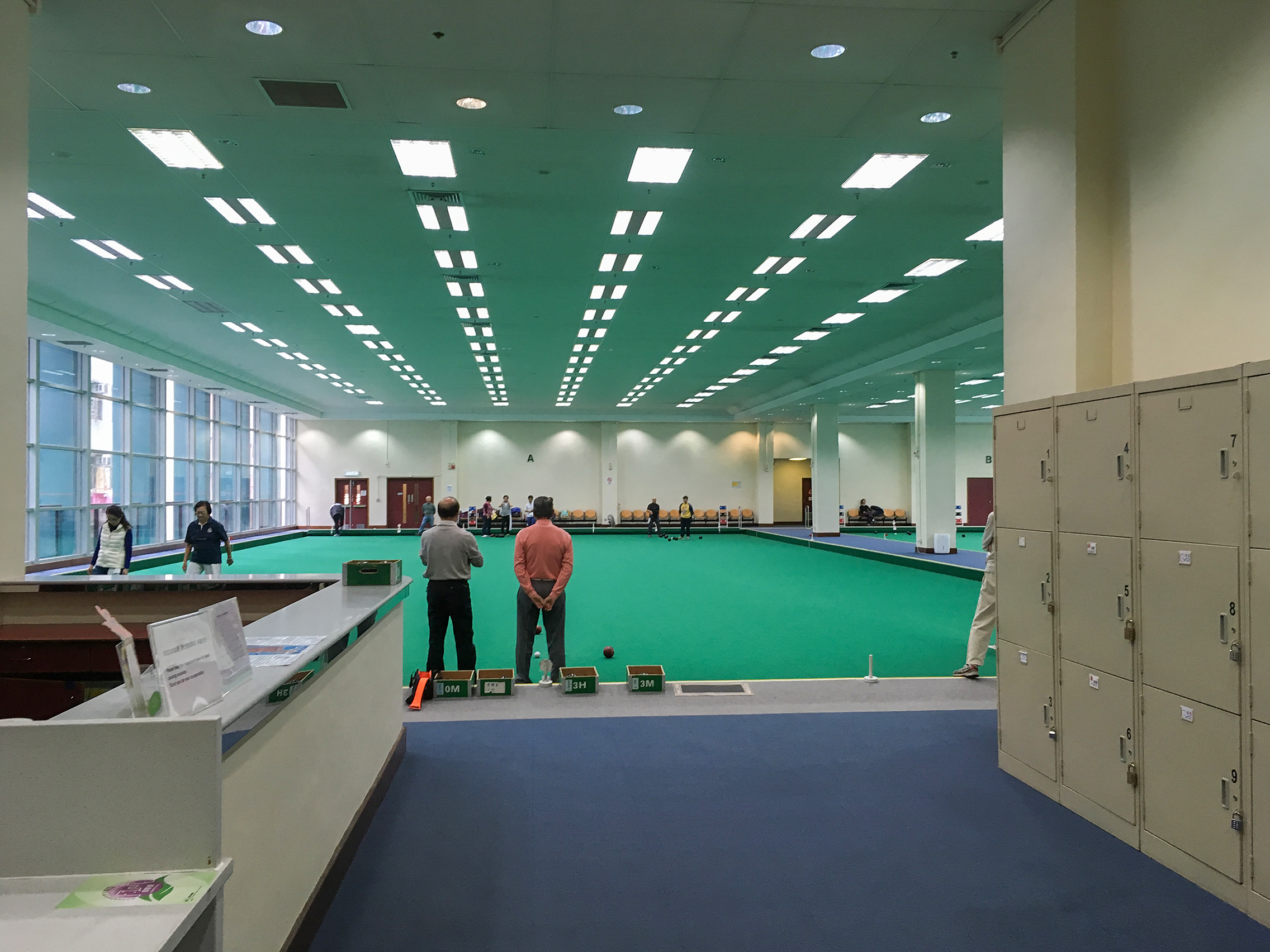 Ap Lei Chau Sports Centre Level 4 Bowling Green Rinks